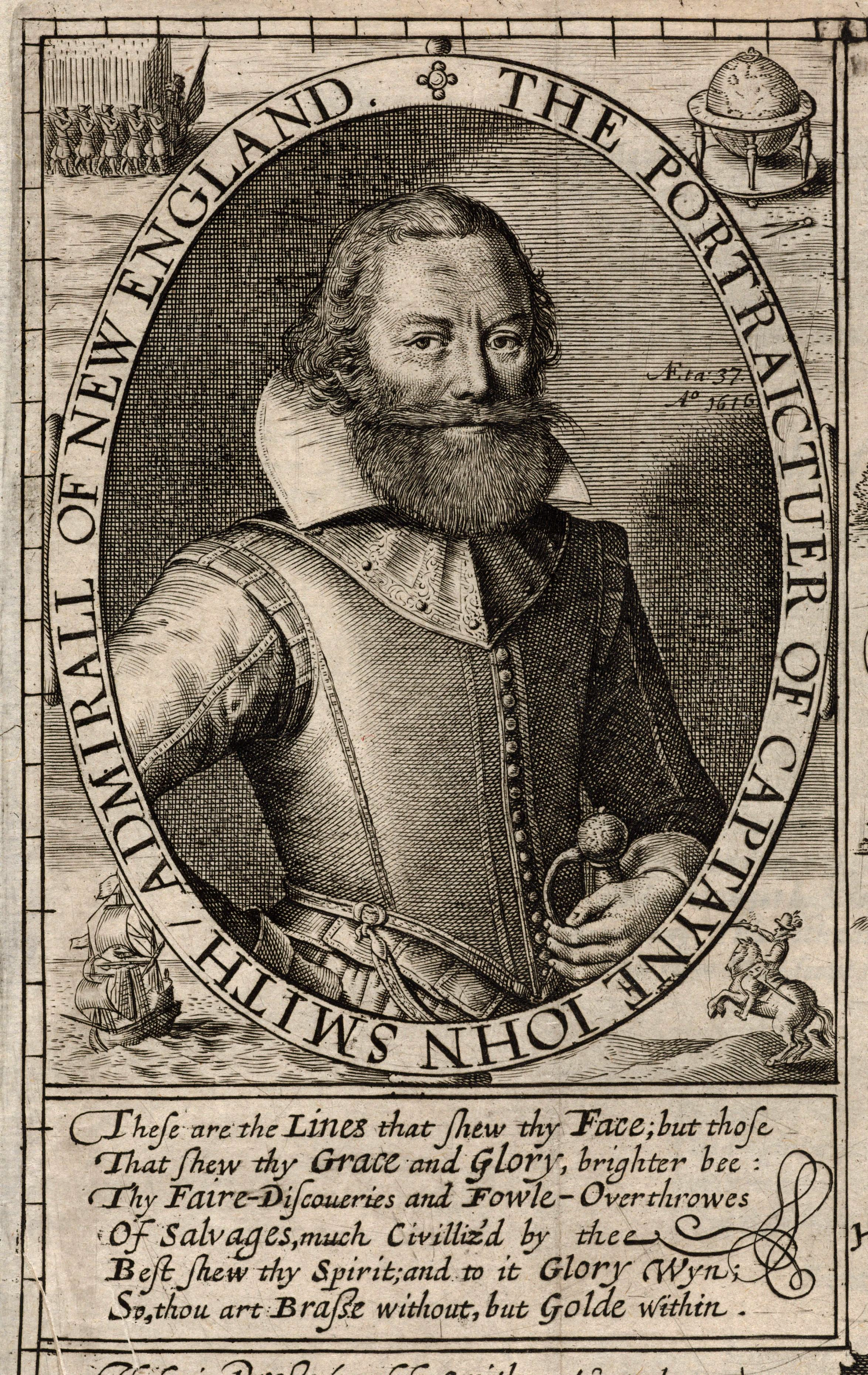 Detail of John Smith from an illustration in The Generall Historie of Virginia, New England, and the Summer Isles; with the names of the Adventurers, Planters, and Governours from their first beginning, Ano: 1584, to this present 1624. Engraver John Barra? STC 22790 -Srpski (latinica): Datum rođenja: 6. januar 1580. Mesto rođenja: Linkolnšir, Engleska Datum smrti: 21. jun 1631. Mesto smrti: London, Engleska